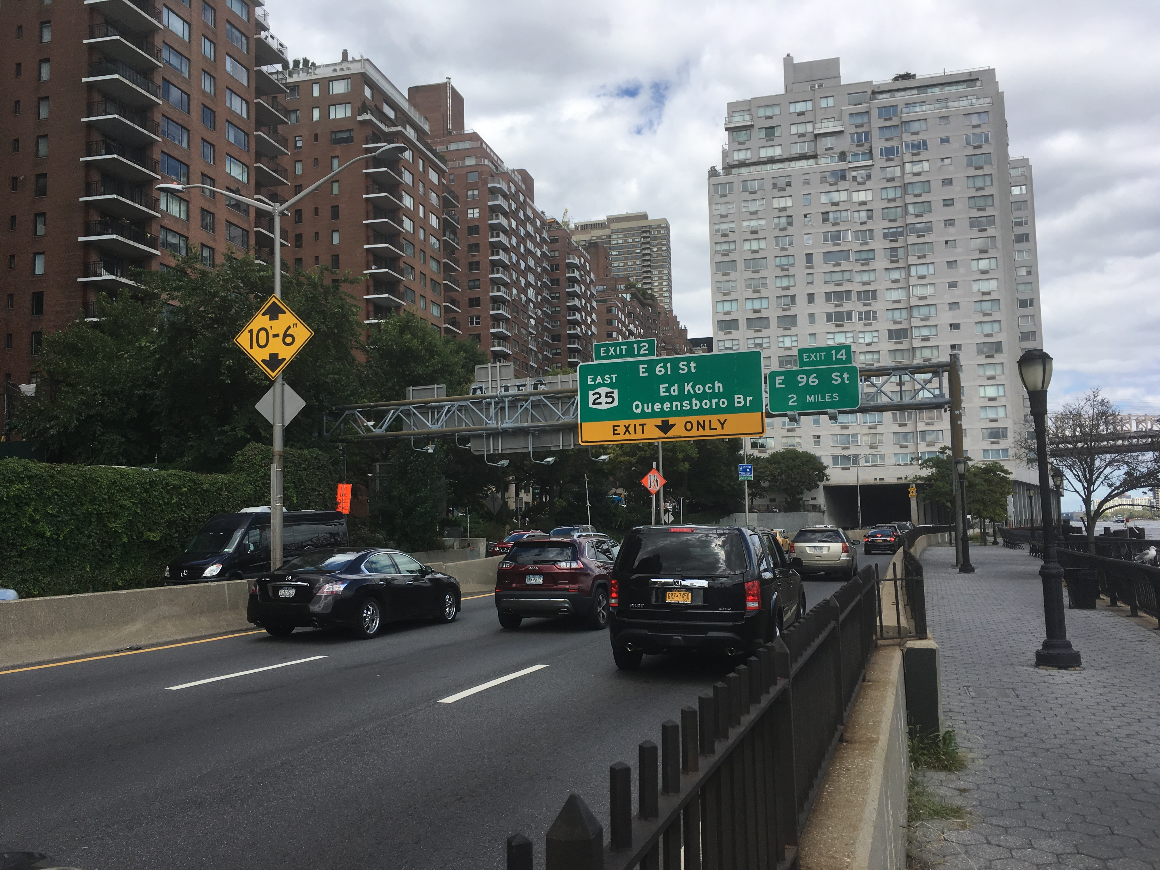 Northbound FDR Drive approaching the interchange with New York State Route 25 (exit 12) in Manhattan, New York City